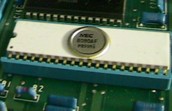 A NEC 8080AF microprocessor. Image based on :Image:Nec8080.png.